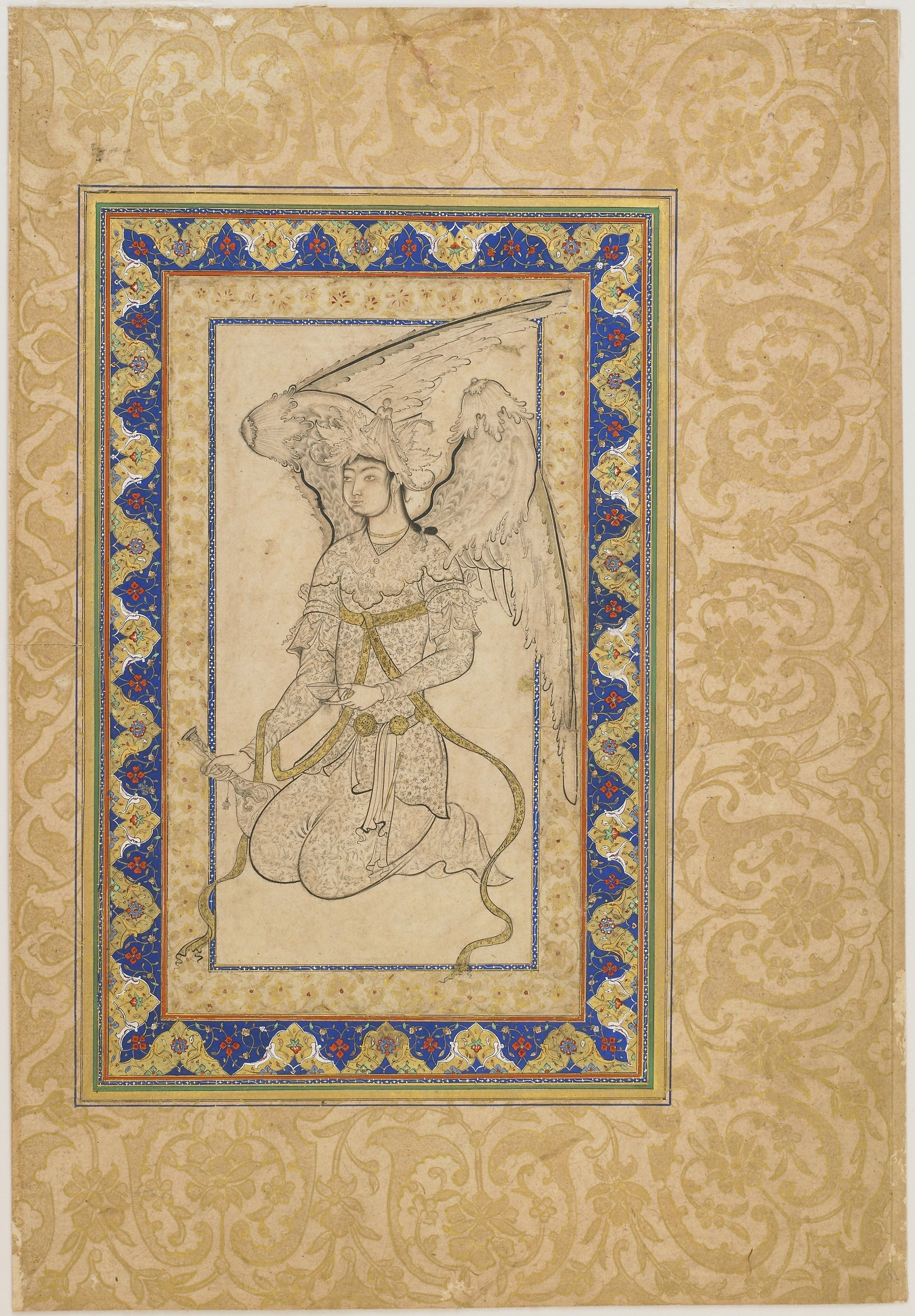 A Kneeling Angel, by Shah Quli, Ottoman Dynasty, mid 16th century, housed in the Freer Gallery of Art, Smithsonian, Washington D.C.